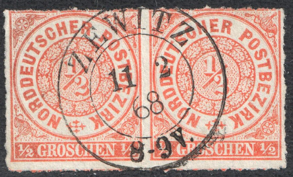 North German Confederation 1868 Mi. 3 pair, 'ZEWITZ 11 2 68 8-9V.' Feuser Pr 3658